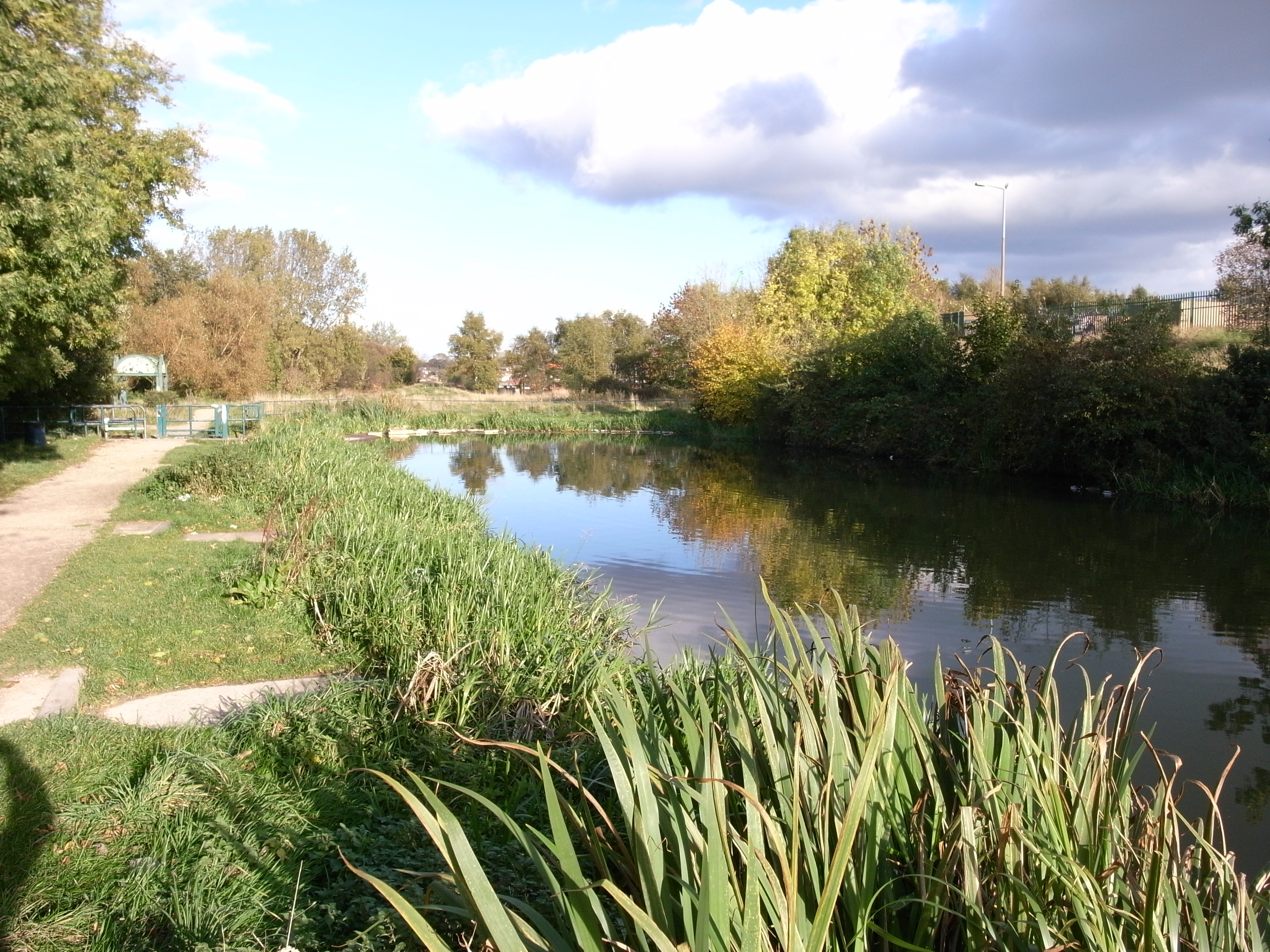 The disconnected Ridgacre Branch Canal in West Bromwich, England. This is the terminus at Hateley Heath.